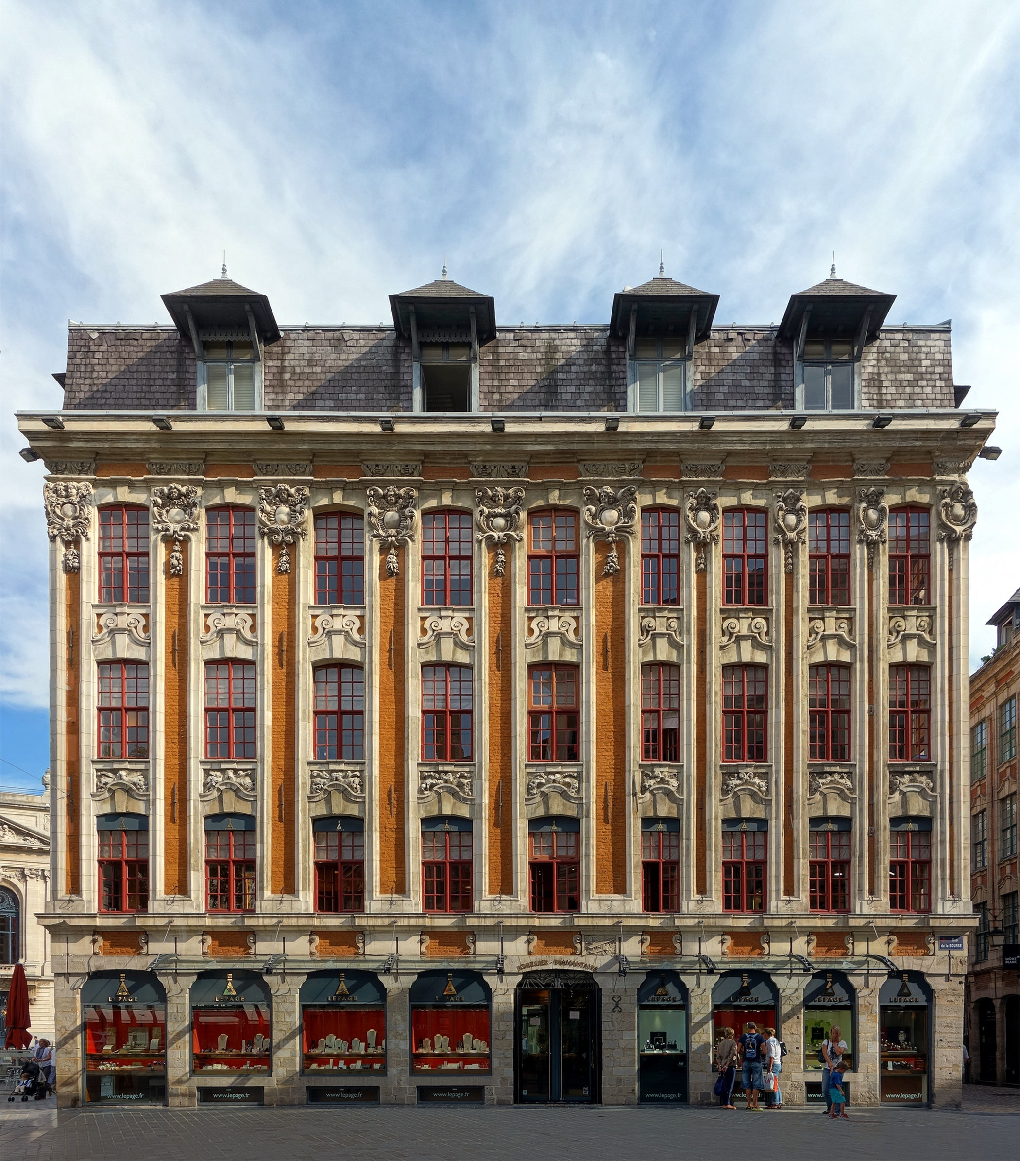 Building rue de la Bourse in Lille, France.